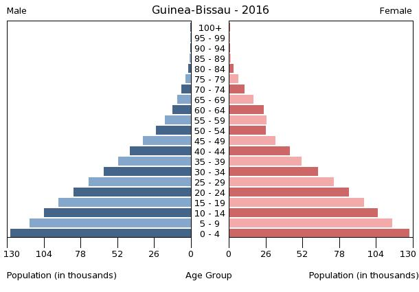 The population pyramid of Guinea-Bissau illustrates the age and sex structure of population and may provide insights about political and social stability, as well as economic development. The population is distributed along the horizontal axis, with males shown on the left and females on the right. The male and female populations are broken down into 5-year age groups represented as horizontal bars along the vertical axis, with the youngest age groups at the bottom and the oldest at the top. The shape of the population pyramid gradually evolves over time based on fertility, mortality, and international migration trends.